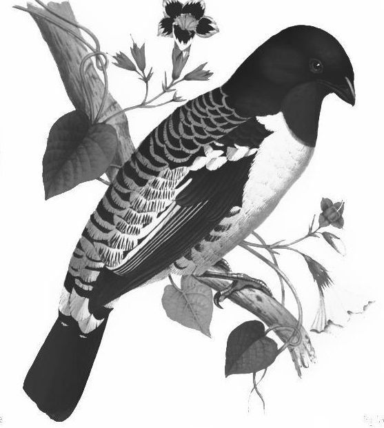 Original plate of the Purple-throated Cotinga, trimmed